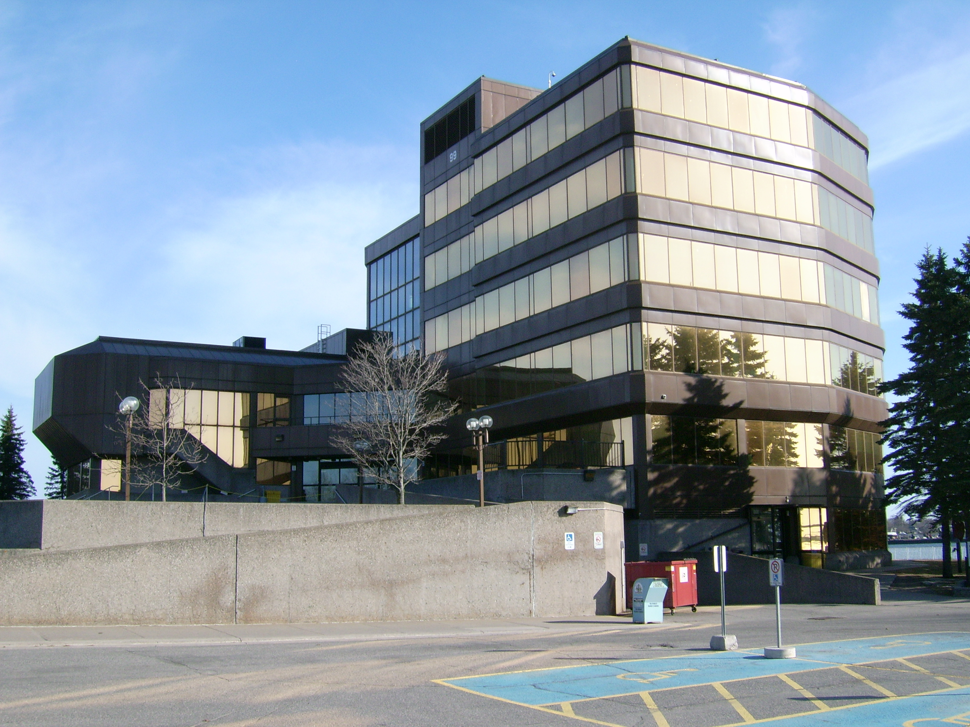 Sault Ste. Marie Civic Centre, Sault Ste. Marie, Ontario. Wayne Gretzky's #99 top-centre.